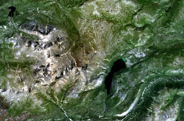 Alligator Lake (right-center) and the Alligator Lake Volcanic Field, Canada